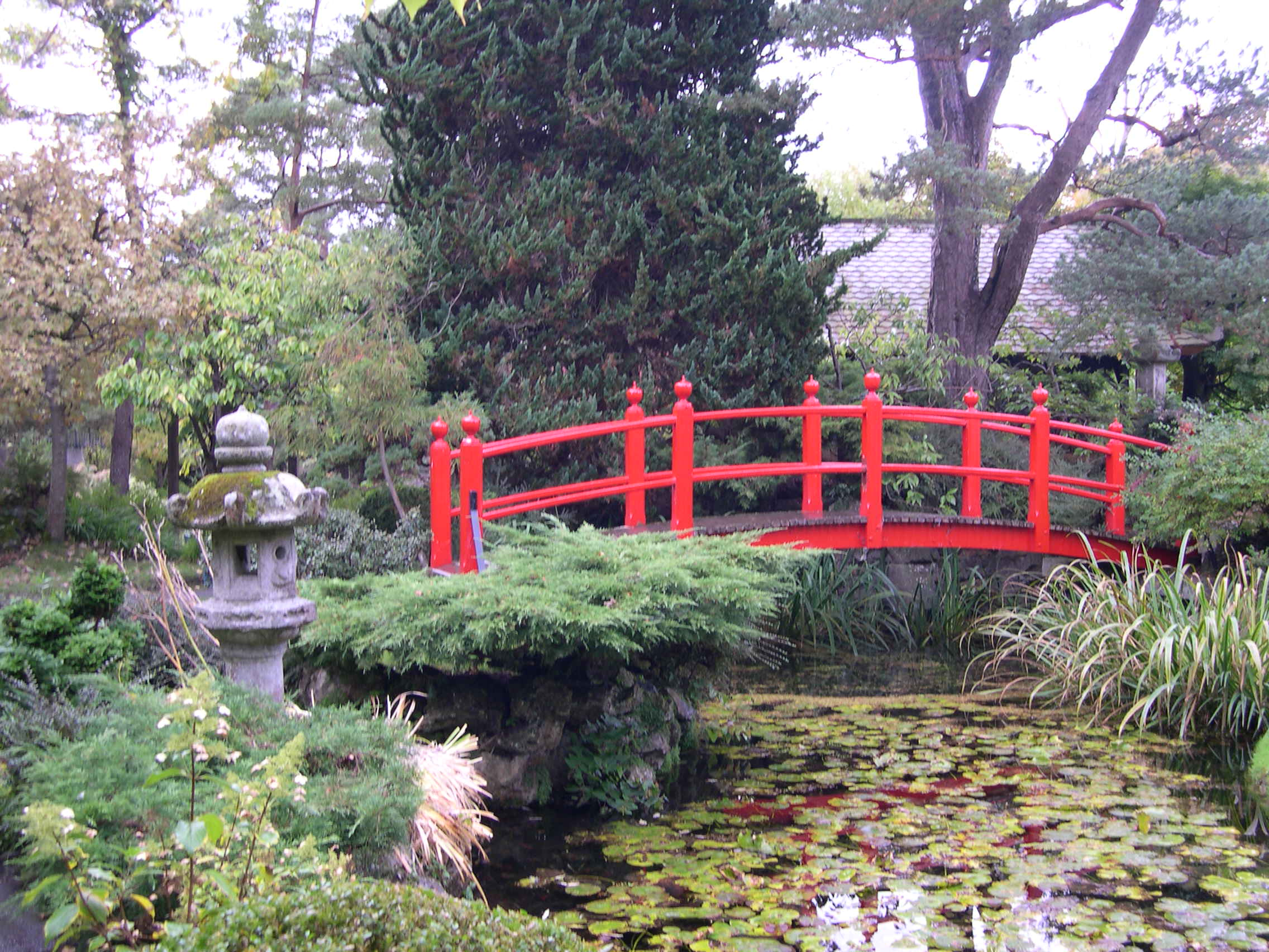 The bridge in the Japanese gardens, Kildare town. Credit: A Peter Clarke image